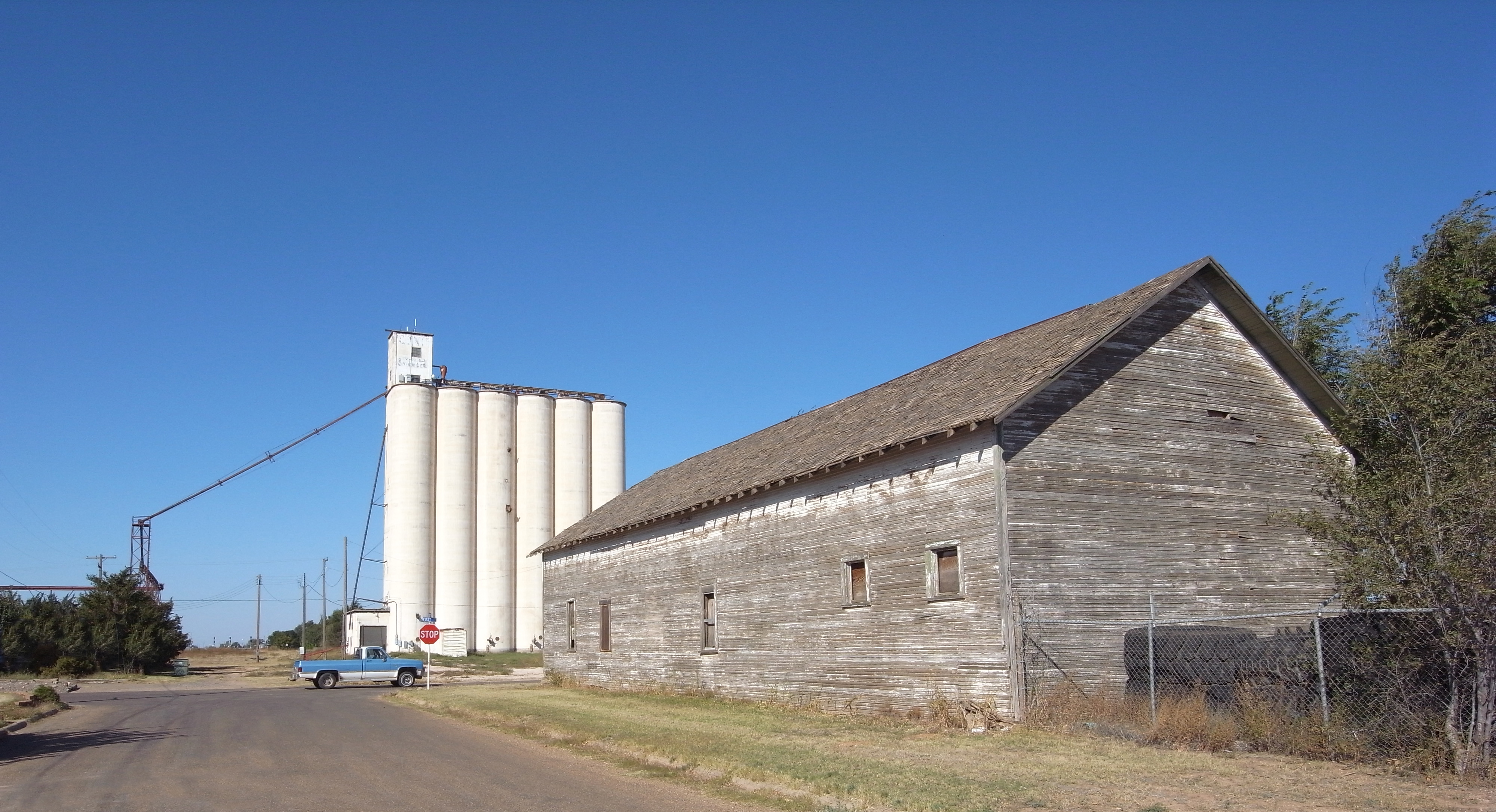 Grain elevator and wooden building at the border of Texas and New Mexico. Elevator is in Texico, New Mexico whereas wooden building is in Farwell, Texas.